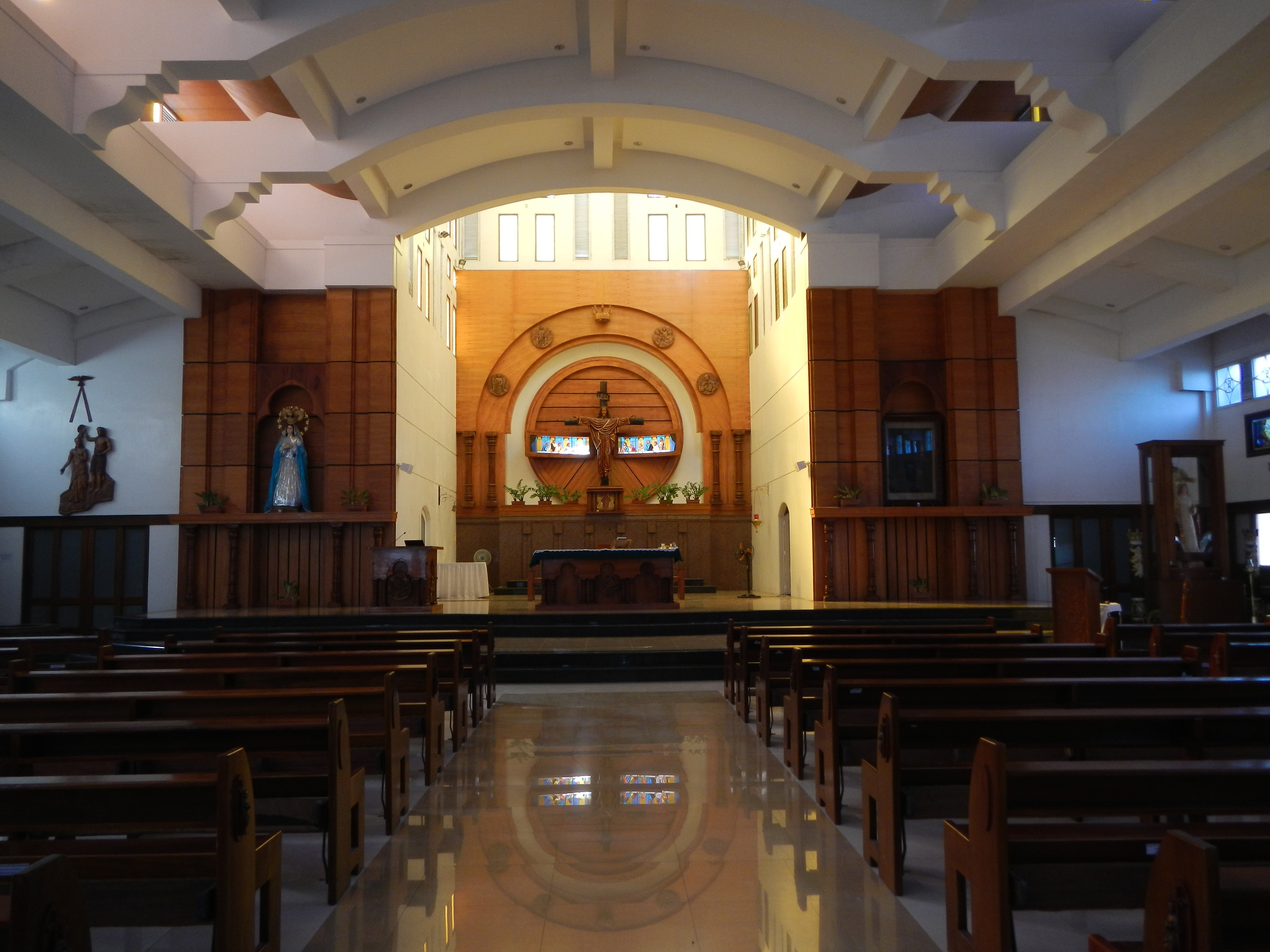 Heritage Saint Helen, the Empress Parish Church [1] Feast Day: May 4 Parish Priest: Father Edmar A. Estrella Parokya ni Sta. Elena de Emperatriz Helena (empress) Helena of Constantinople; including the Statue of Saint Helena of Constantinople in side Altar, Roman Catholic Diocese of Malolos Vicariate of St. Anne Hagonoy, Bulacan Barangay Santa Elena, Hagonoy, Bulacan.